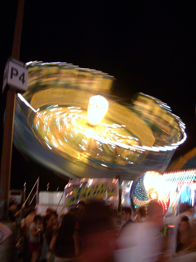 mine